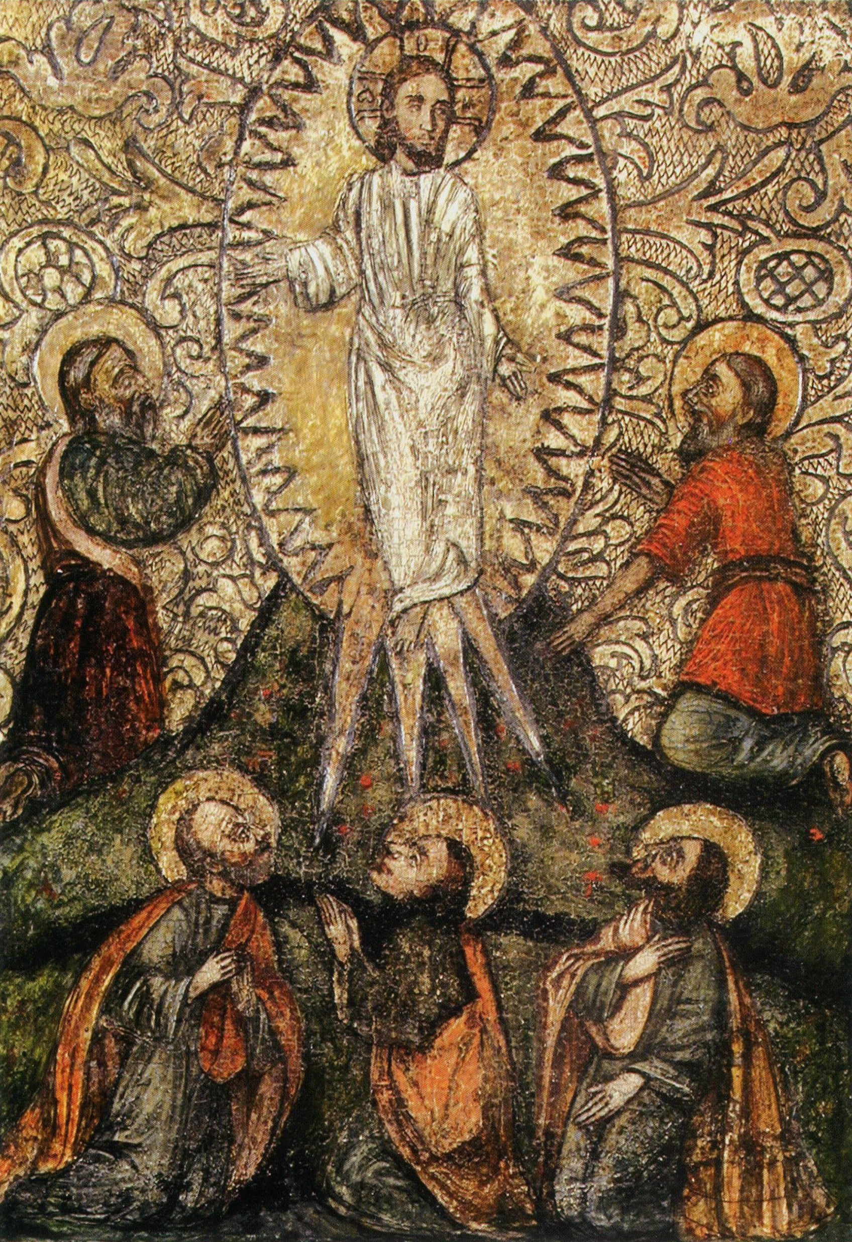 THE TRANSFIGURATION. 17th с. Wood, tempera. 51x37x2. The Intercession Church, Pryluki, Brest district, Brest region. Restoration - A. Shpunt.